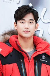 Kim Soo-hyun at a fansigning event for Bean Pole Outdoor, 21 November 2014